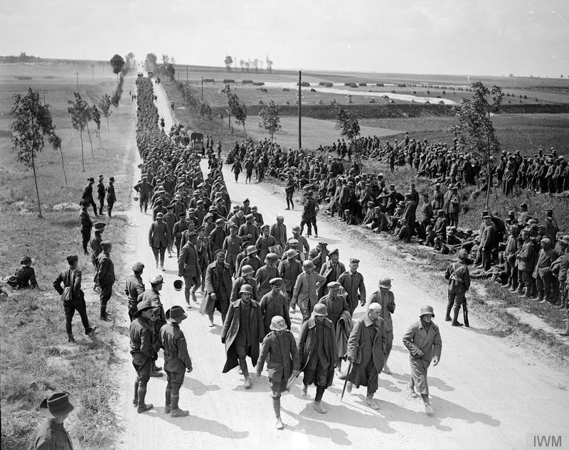 The Hundred Days Offensive, August-november 1918 Battle of Amiens. German prisoners arriving at a temporary POW camp near Amiens, 9 August 1918.